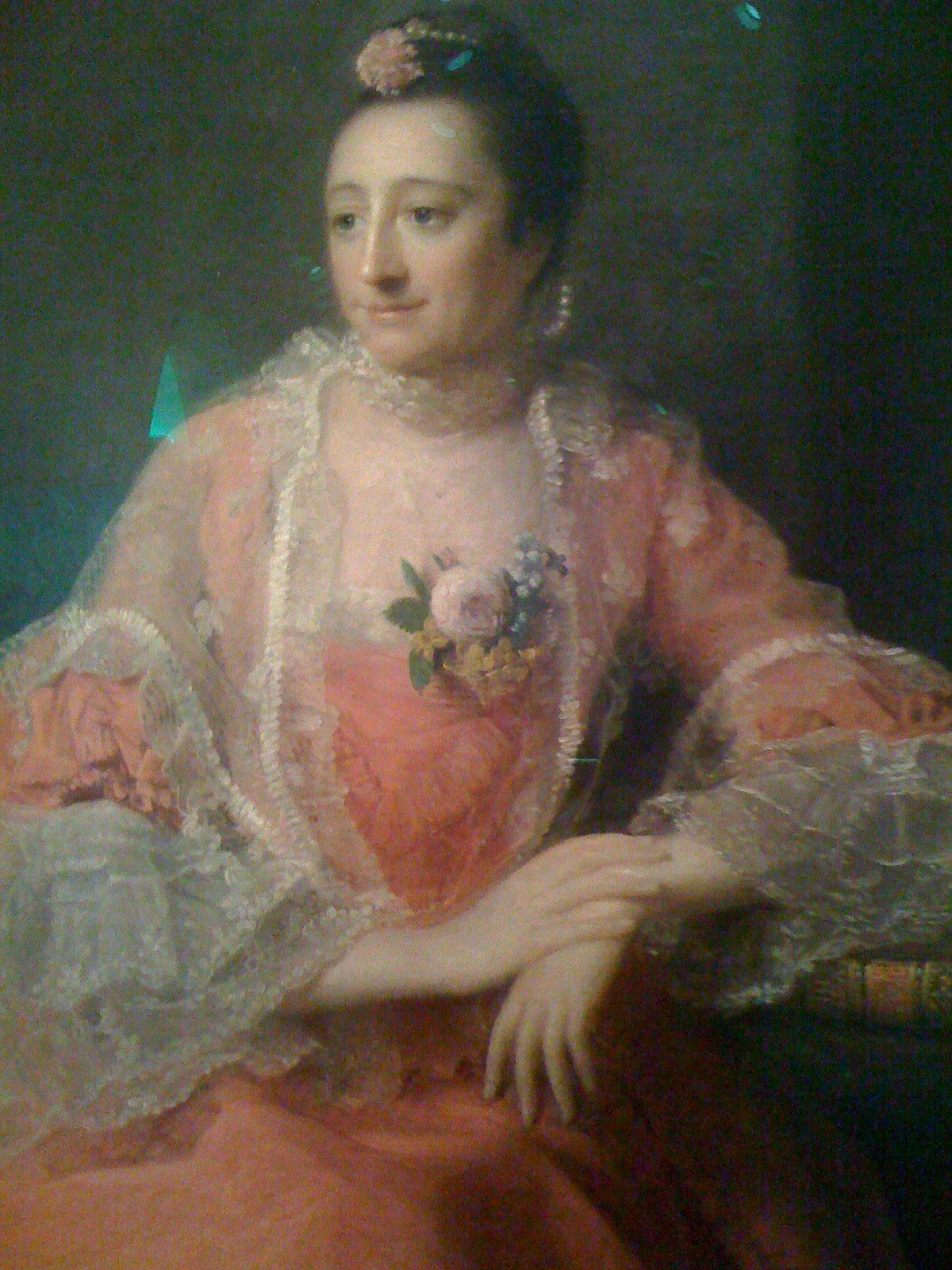 Portrait of Elizabeth Montagu by Allan Ramsay (1713-1784) in 1762. Photographed through glass.